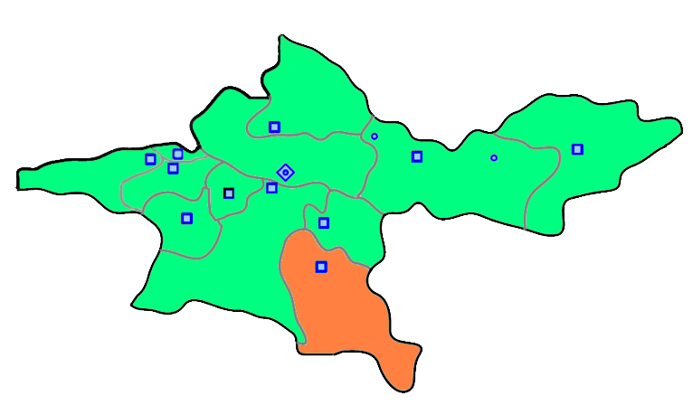 Varamin county of the Tehran Province in Iran. Taken from: and editec by Mani Parsa.